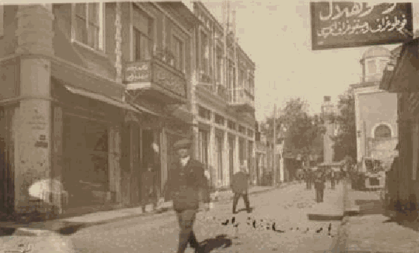 Bankalar Caddesi (Samsun) in Ottoman era, c. 1890s-1900s.